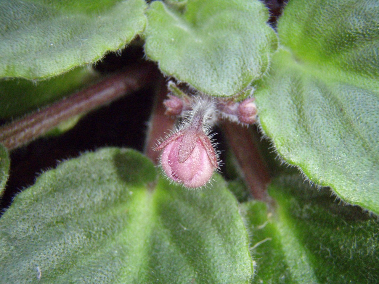 An African Violet is beginning to flower